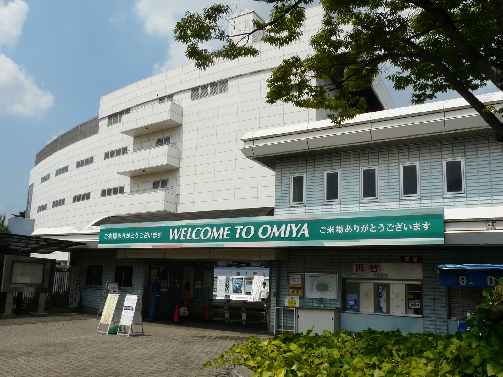 Omiya-keirin